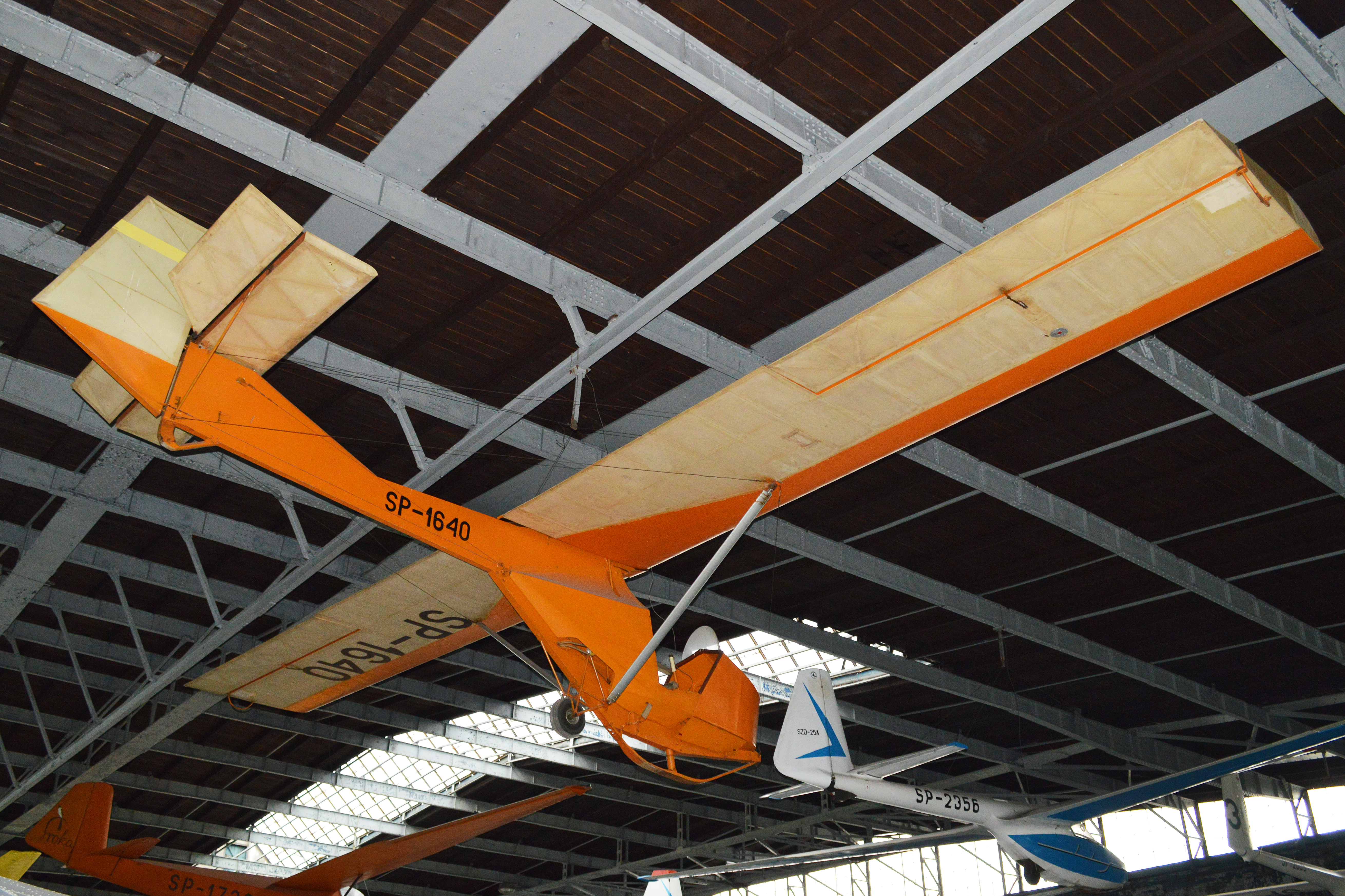 c/n 211. On display suspended in the main display hangar at the Muzeum Lotnictwa Polskiego Krakow, Poland. 23-08-2013.